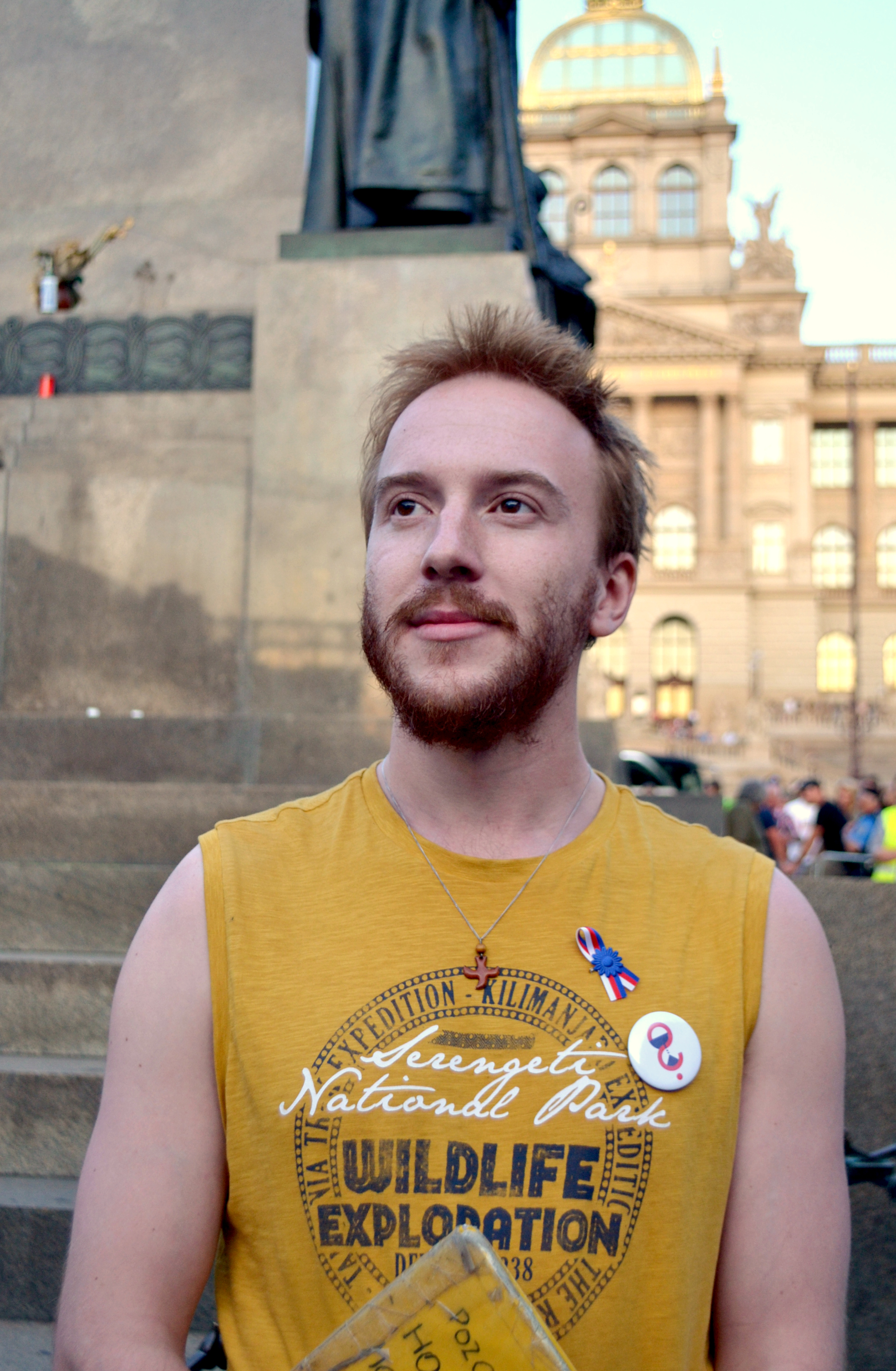 Mikuláš Minář, activist, chairman of the association Milion chvilek, after protest on Václavské náměstí, 4th June 2019